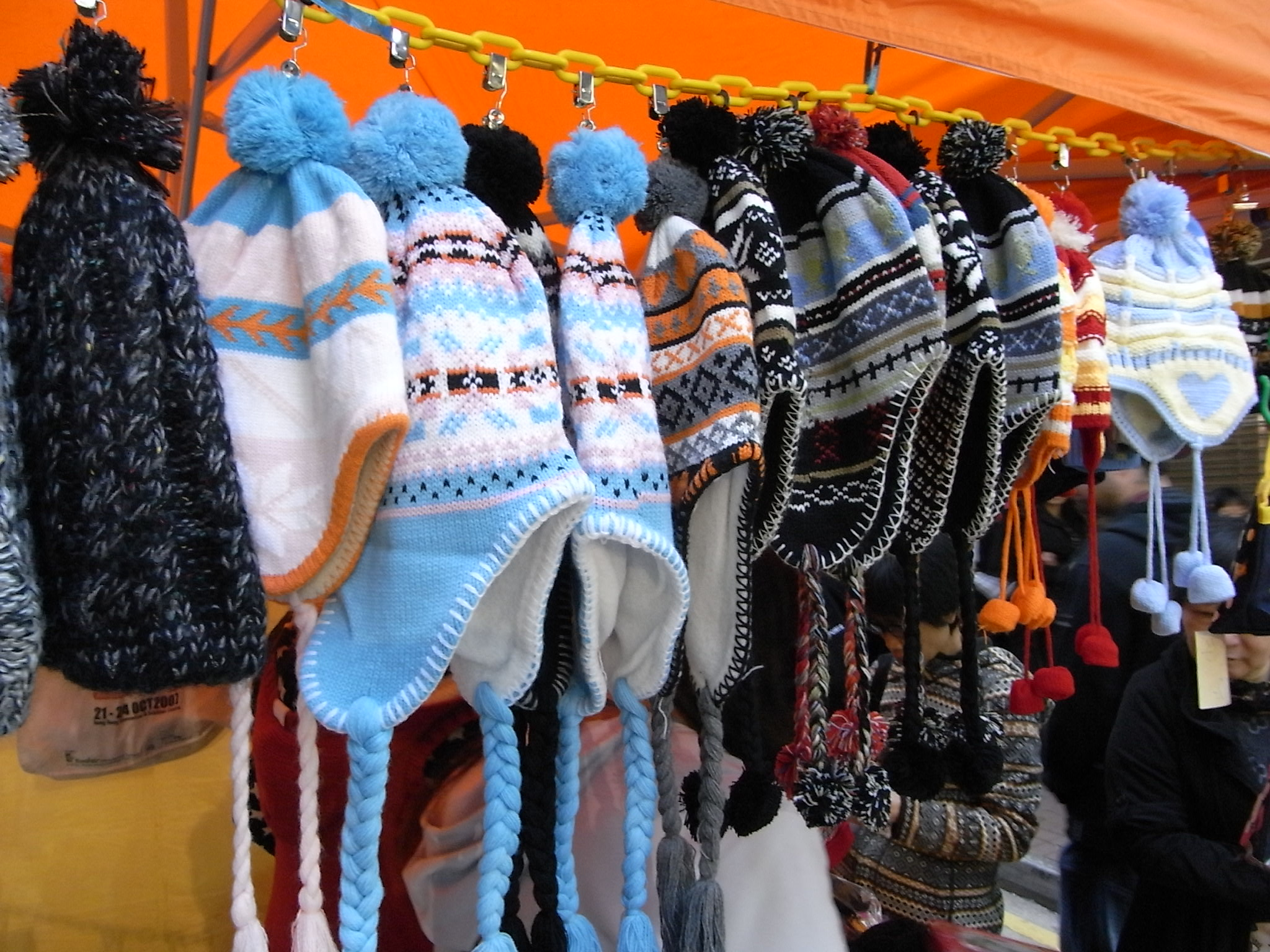 上環黃昏